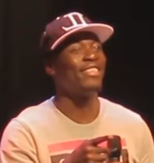 Eddie Kadi performing at the Crossover concert in August 2014